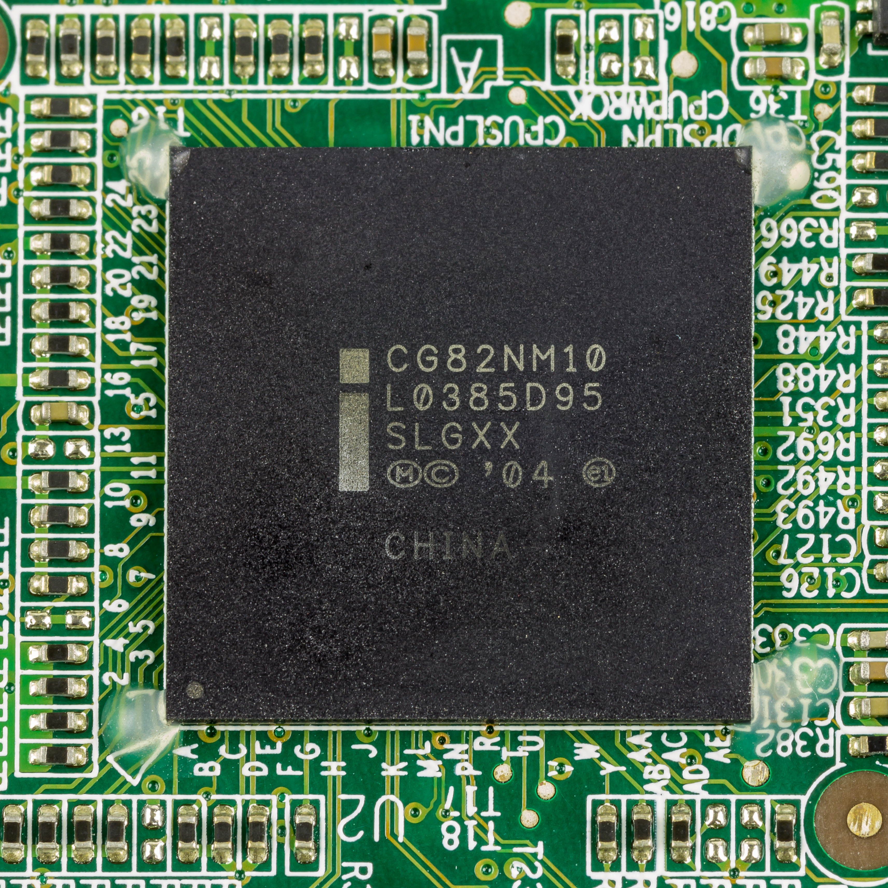 Terra Pad 1050 - Intel CG82NM10 Platform Controller Hub (SLGXX, Tiger Point) on mainboard